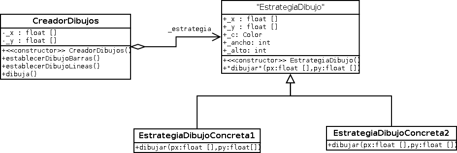 Diagrama de clases del ejemplo de implementación